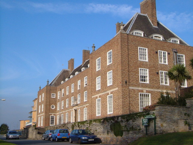 Mardon Hall, University of Exeter Built in 1933, the first purpose-built hall of residence at the university (then the University College of the South West).